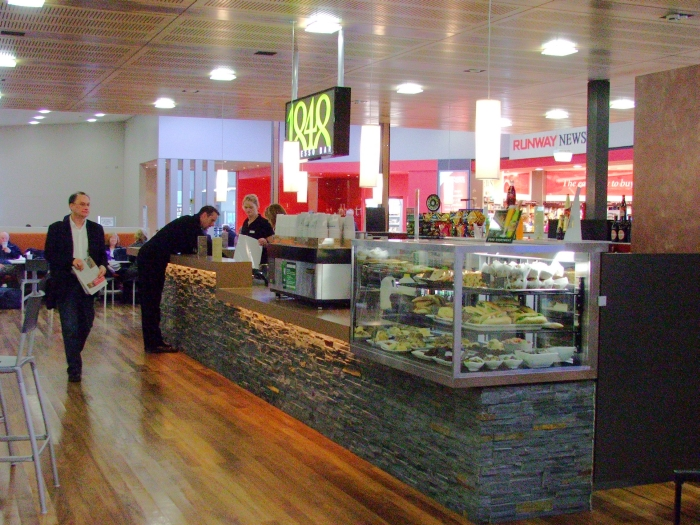 Hobart International Airport